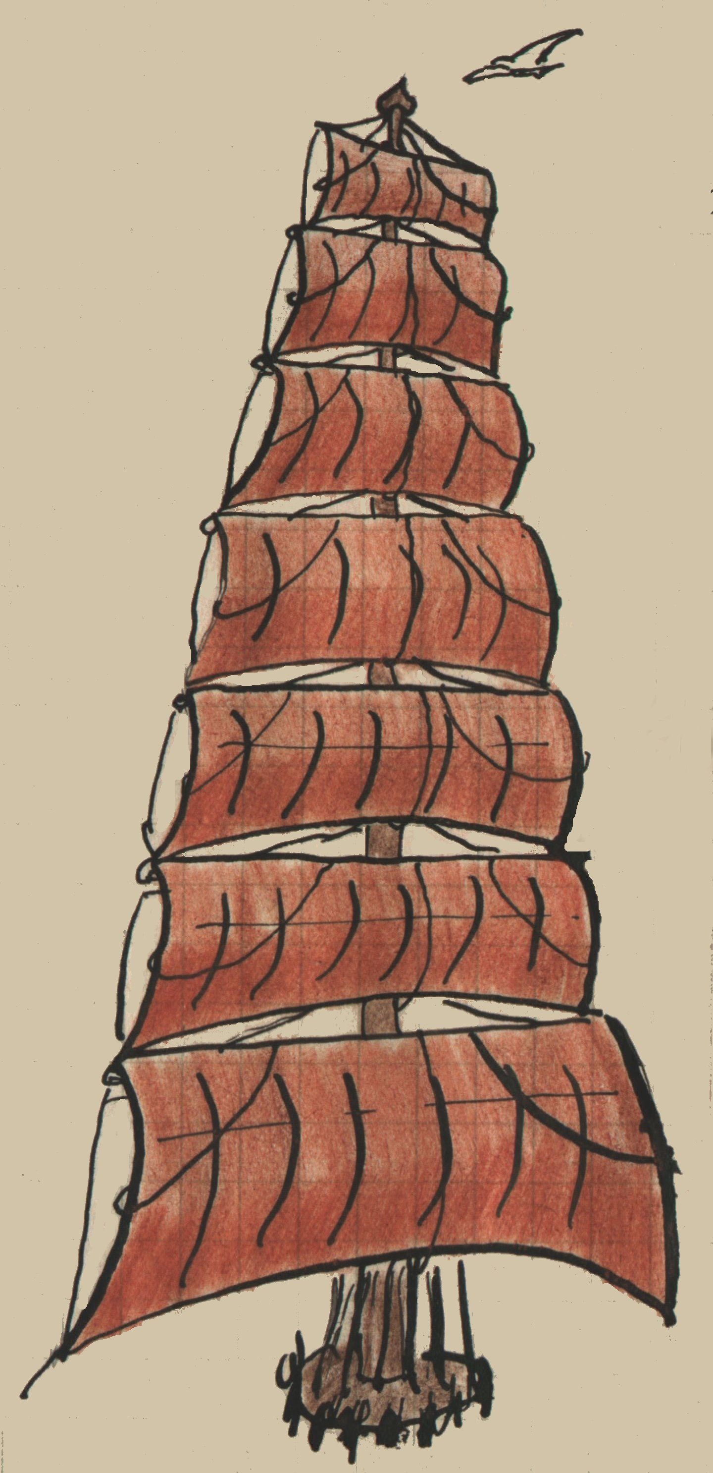 Drawing of the sails on a full-rigged mast, from my old school book.